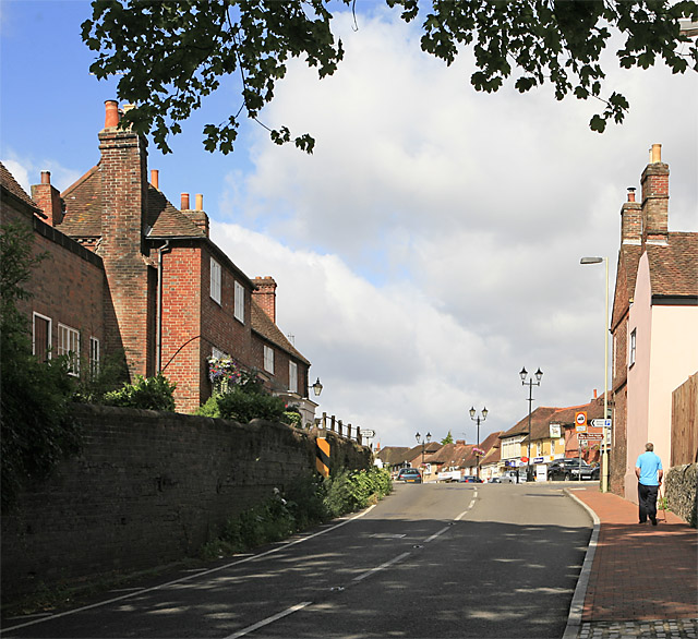 Entering Botley on the A334 from Wickham. Approaching Botley High Street with, at the crest of the hill, a junction with the B3354 to the right.